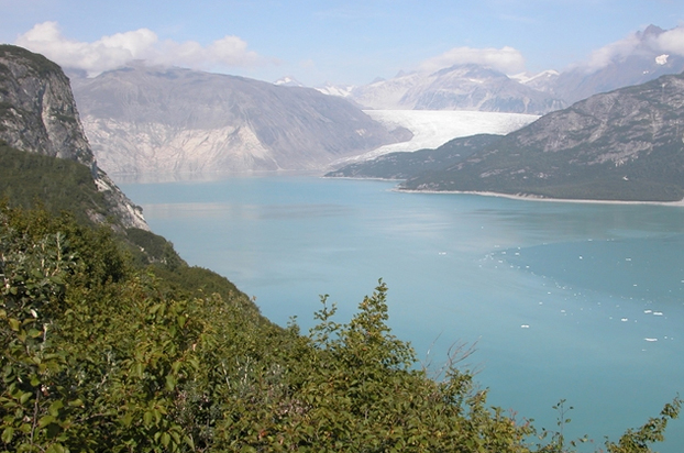 Learn more about glaciers and glacier research in Alaska's national parks at Photo courtesy of Bruce Molnia, USGS